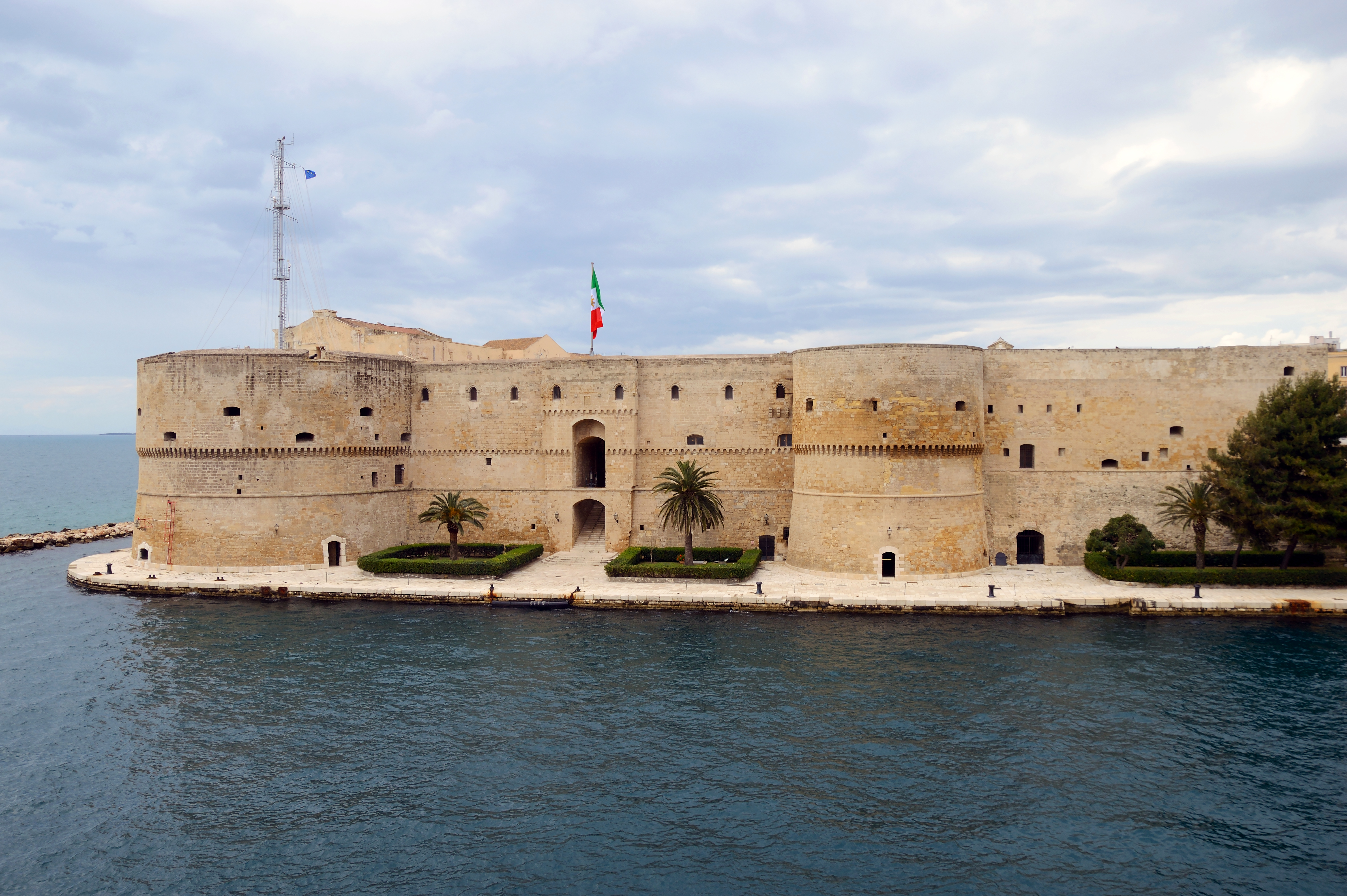 Castello Aragonese (Taranto)